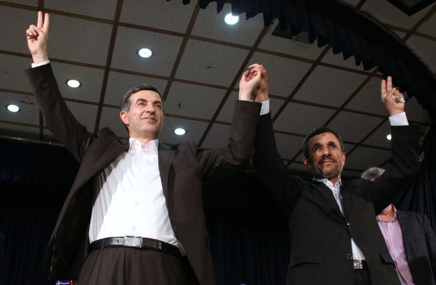 Mahmoud Ahmadinejad and his close ally Esfandiar Rahim Mashaei, flash victory signs in the election headquarters of the interior ministry for registering of Rahim Mashaei for 2013 Iranian presidential election in Tehran, Iran.